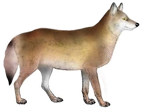 Texas wolf illustration, modified from Himalayan wolf from File:Dogs, jackals, wolves, and foxes (Plate III).jpg